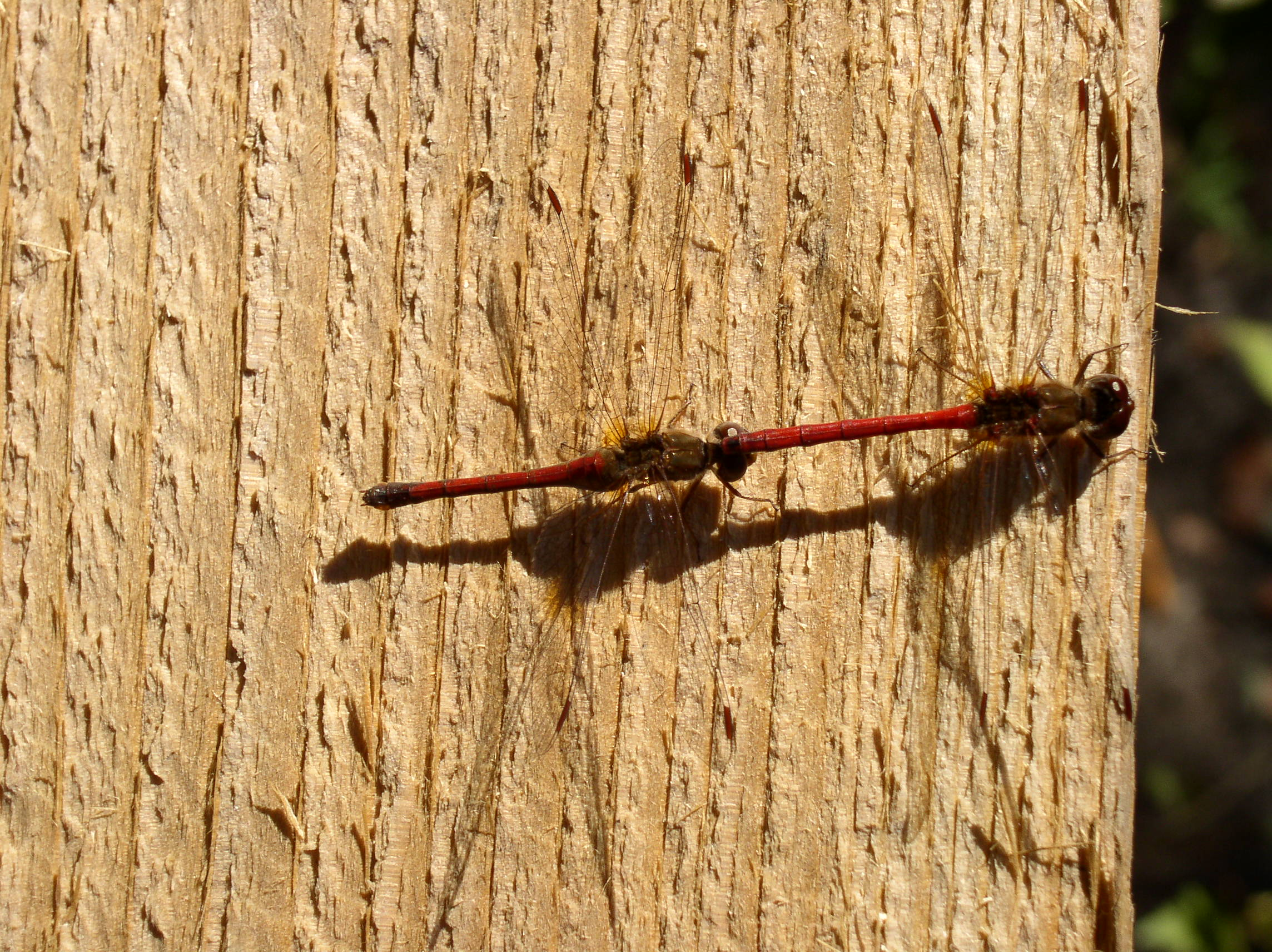 Mating meadowhawks, Sympetrum vicinum (Autumn Meadowhawk). Churchville Nature Center, Bucks County, Pennsylvania, USA.